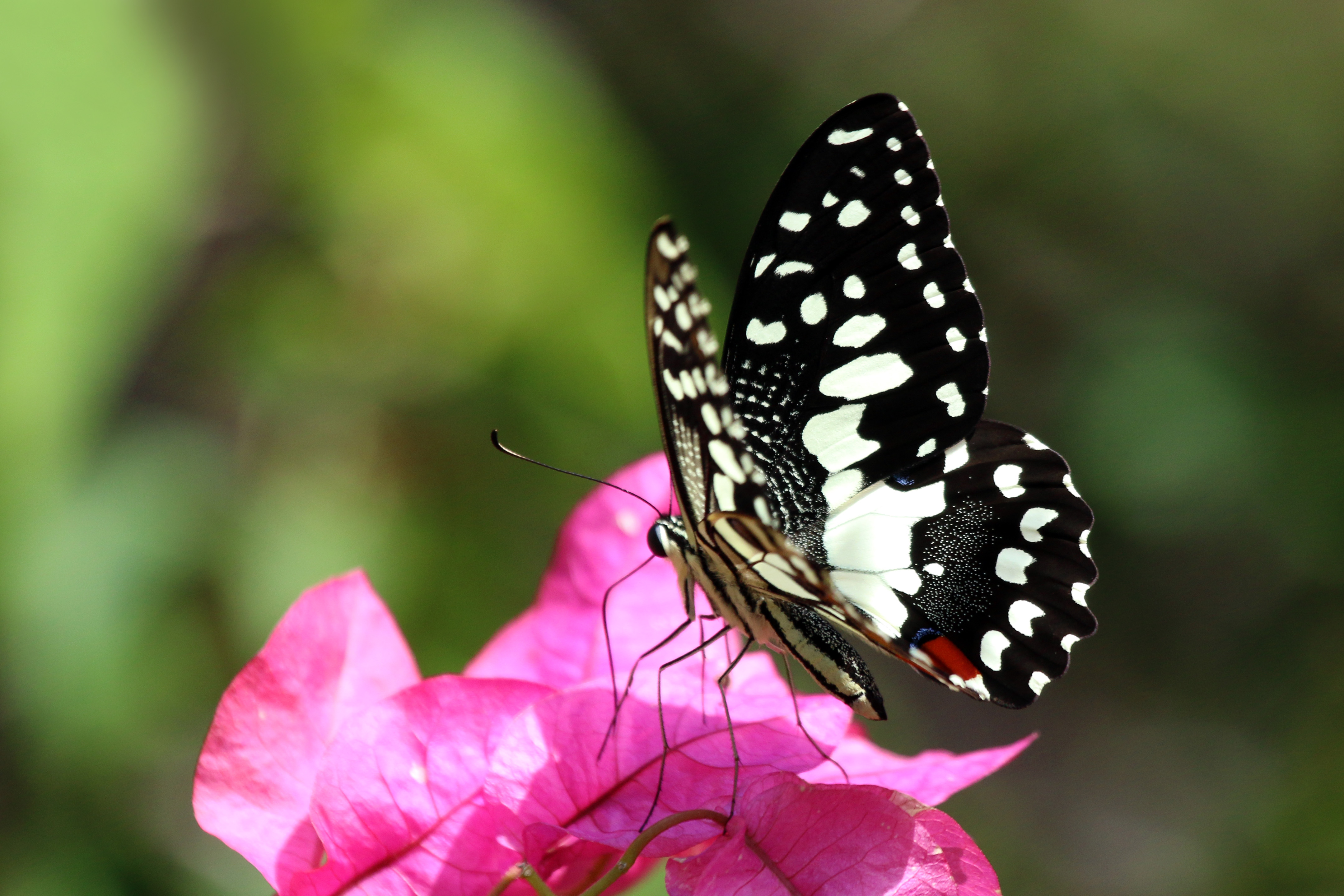 Lime swallowtail butterfly (Papilio demoleus demoleus) in Jamaica